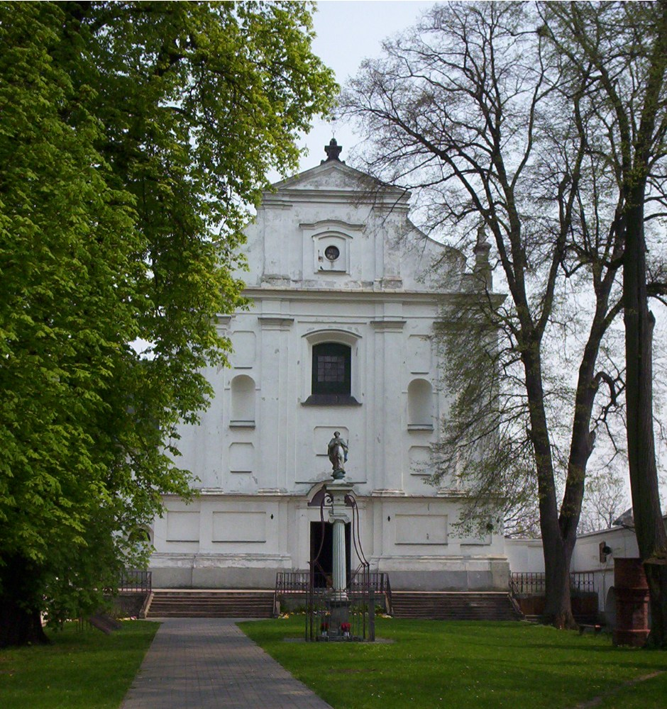 Church in Miedniewice, Poland.